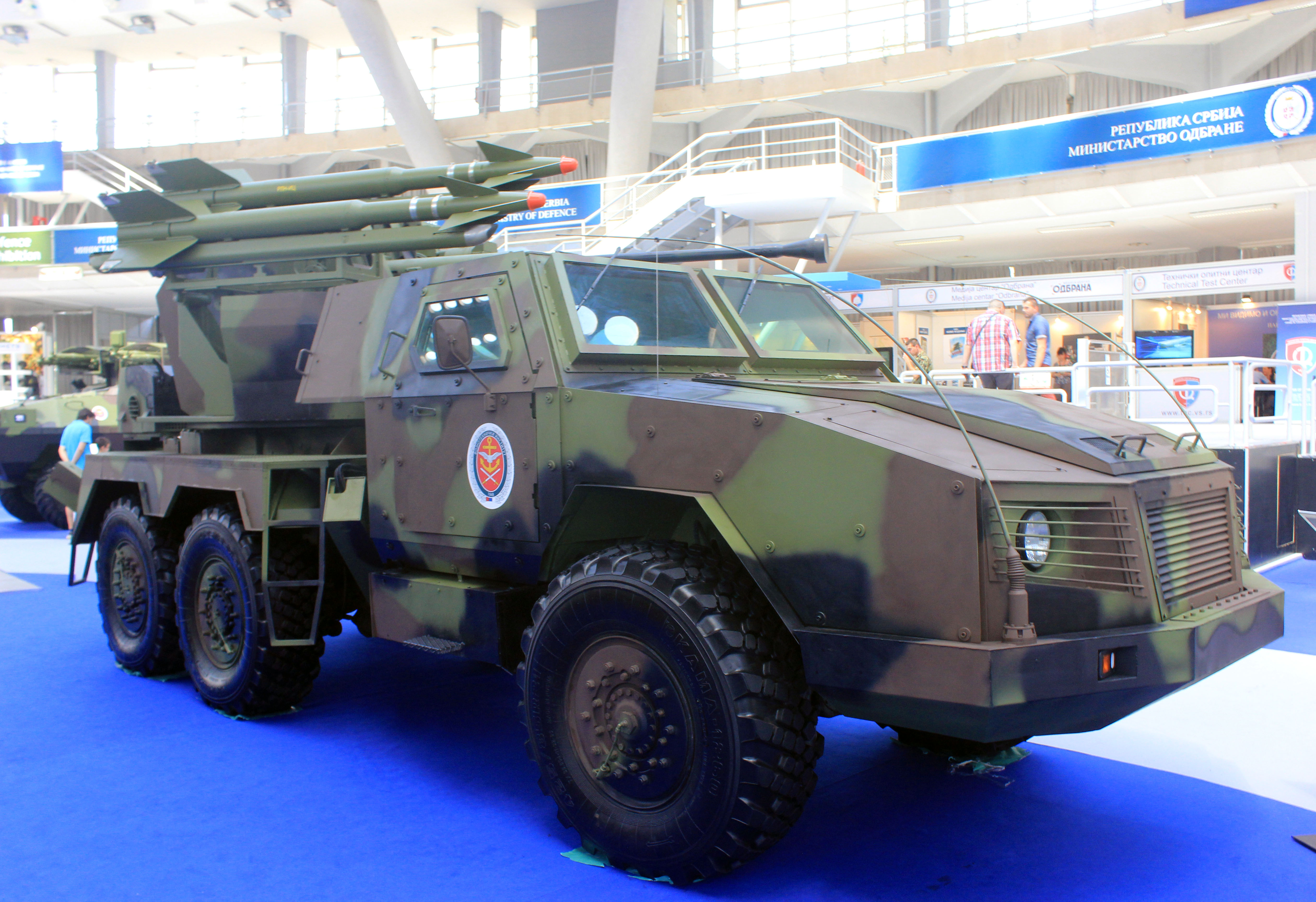 New Serbian hybrid SPAAA 40mm and SAM - PASARS 16 on display at Partner 2017 military fair.